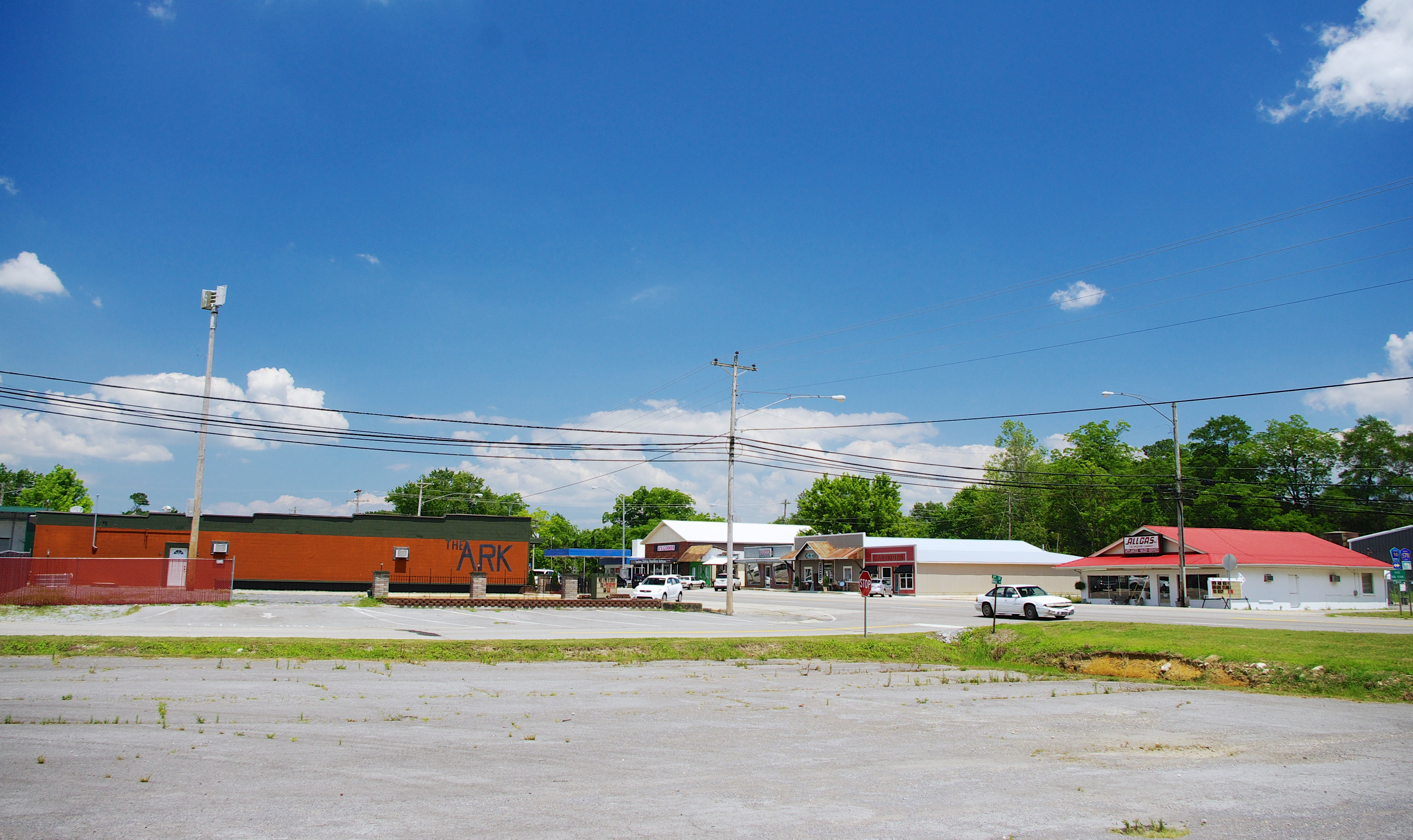 Buildings along Main Street (State Route 75) in Fyffe, Alabama, United States.